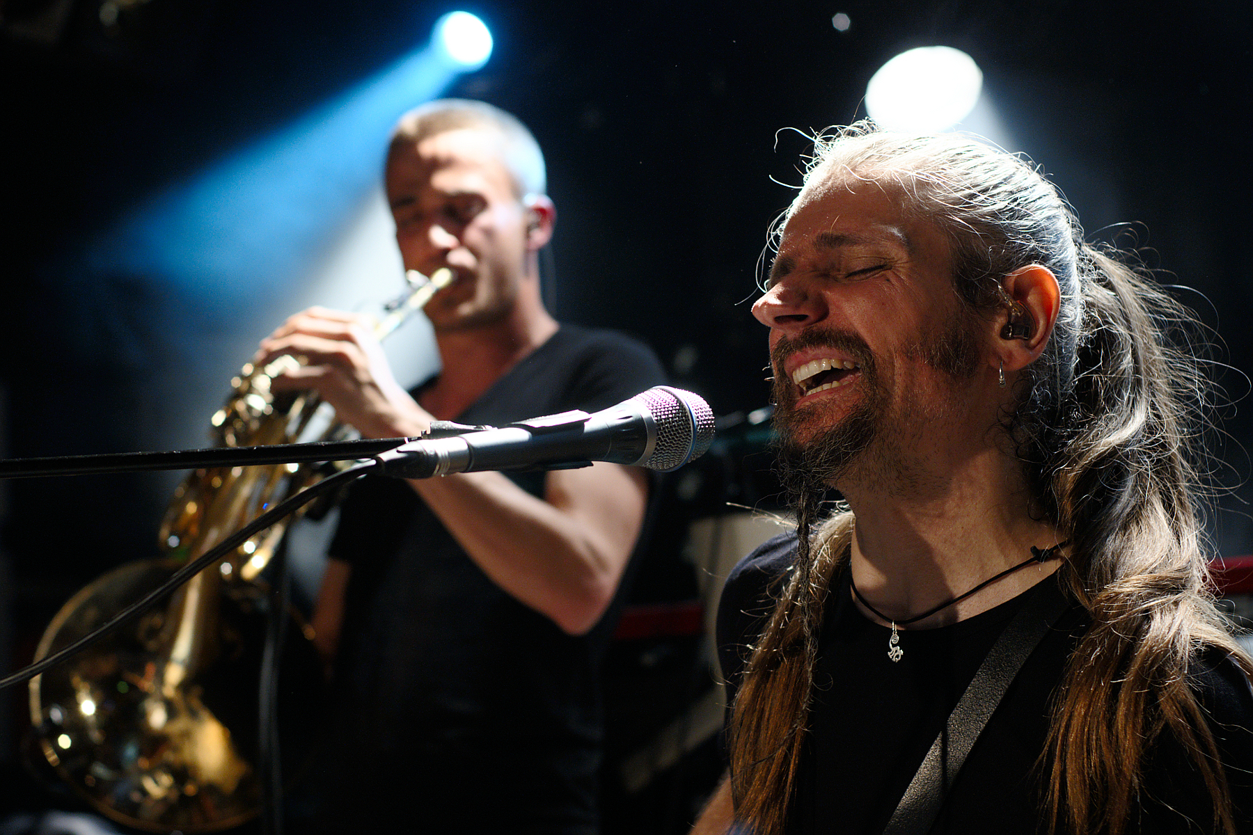 Dominique Leonetti and Romain Thorel of Lazuli